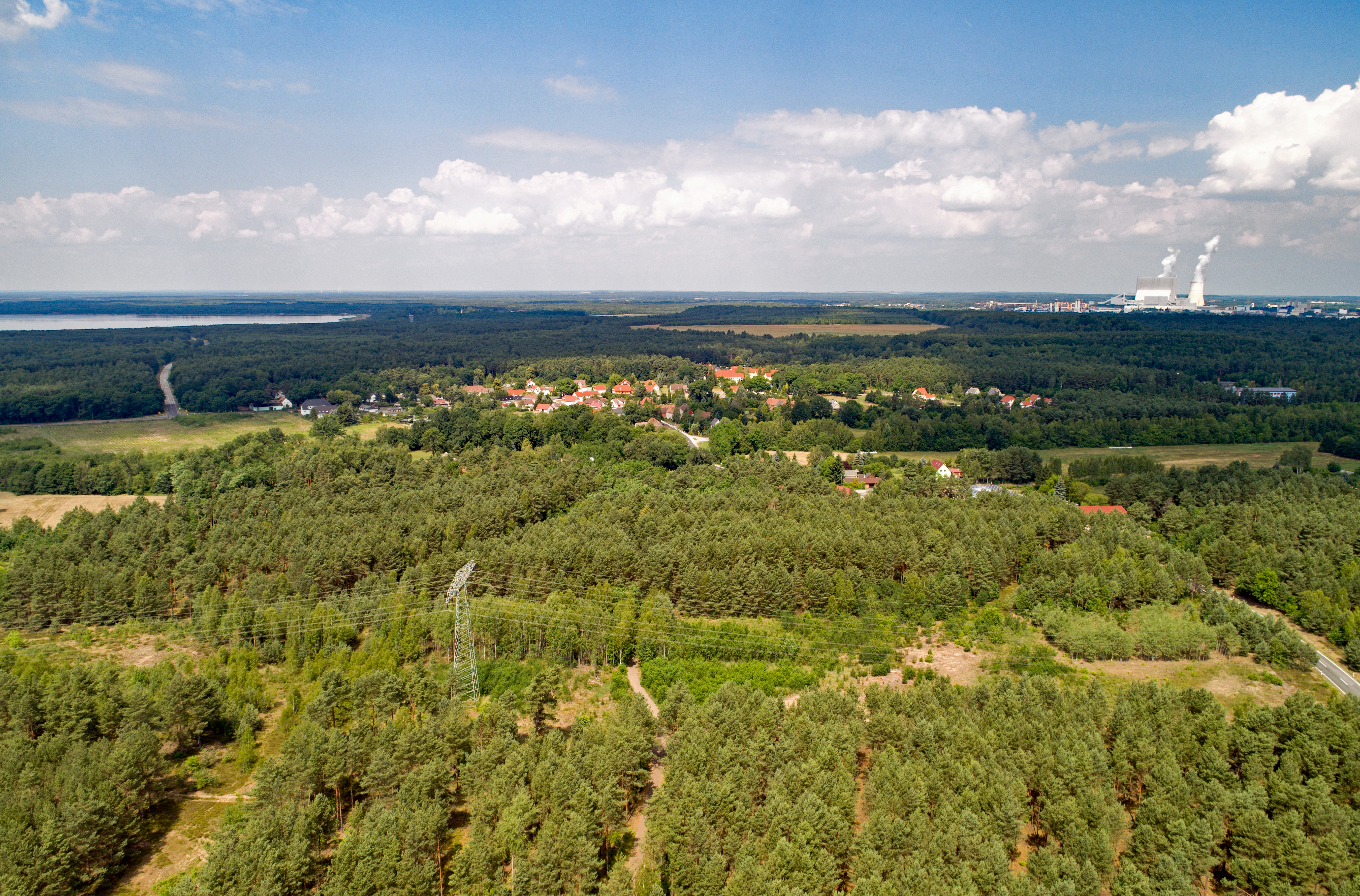 Burgneudorf (Spreetal, Saxony, Germany) Hornjoserbsce: Powětrowy wobraz Noweje Wsy pola Bórka.